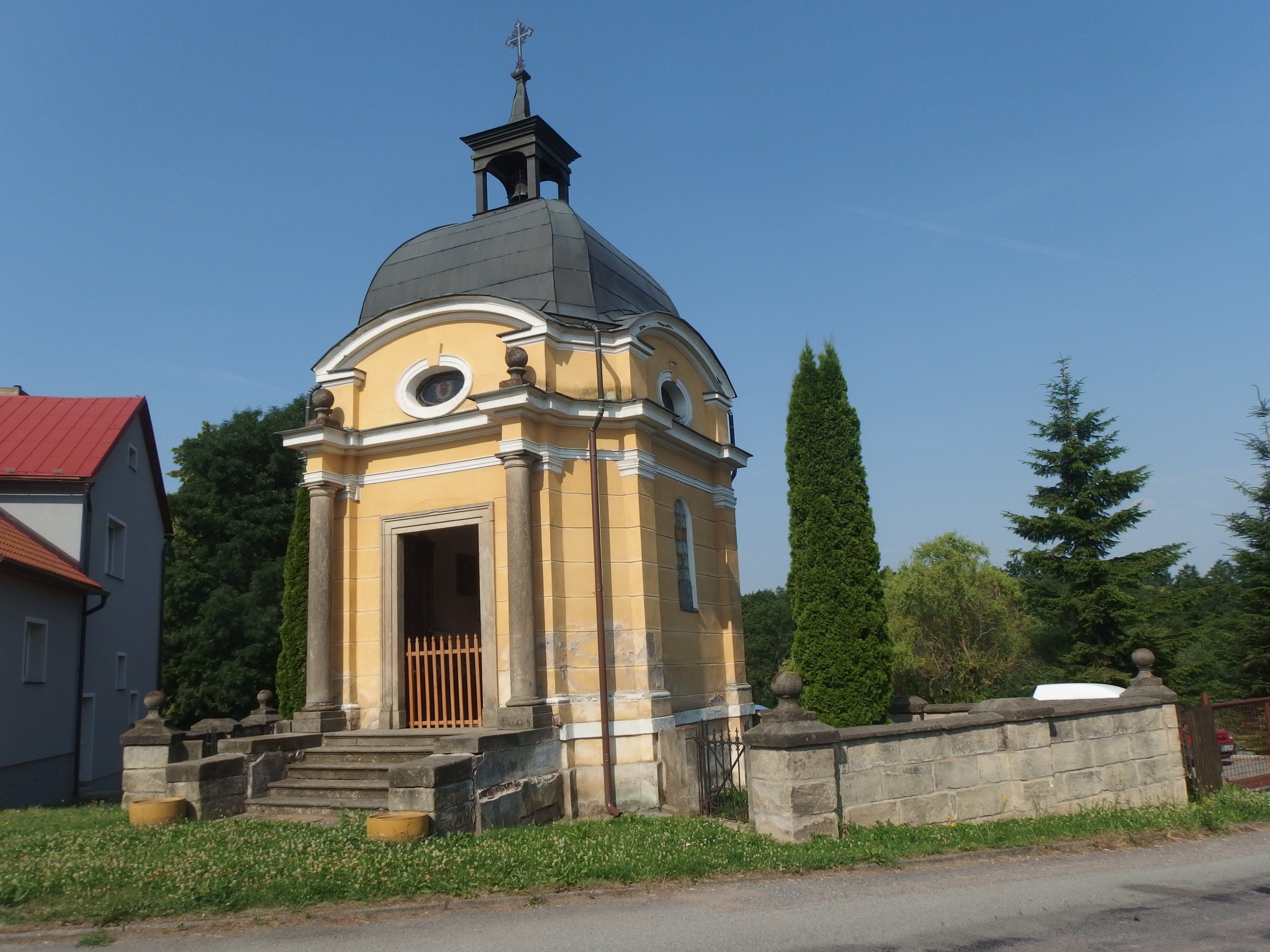 Perálec, Chrudim District, Czech Republic, part Kutřín.